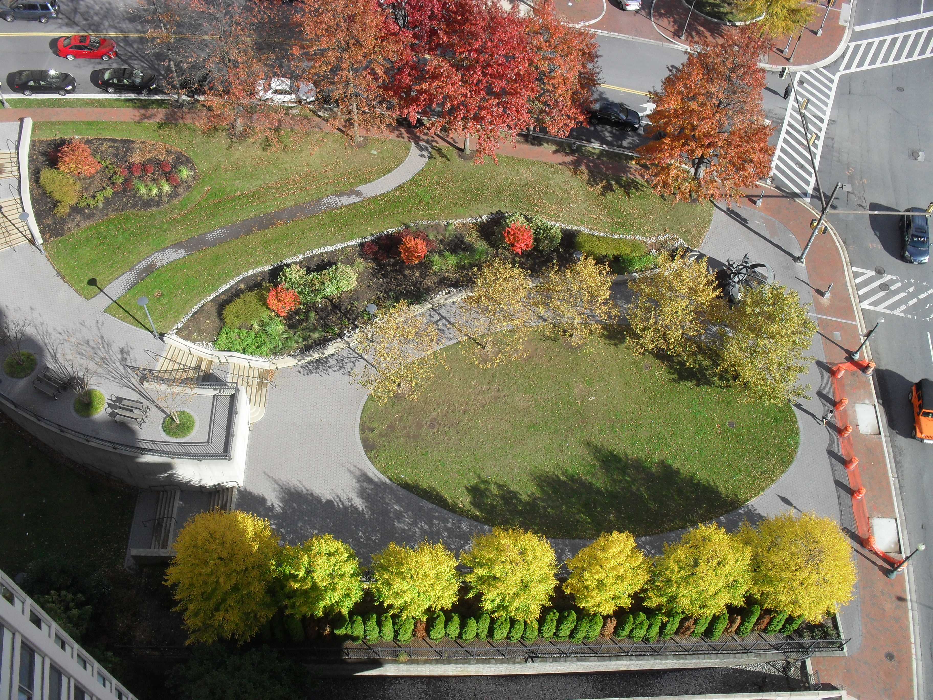 Willoughby Park, Village of Friendship Heights, Maryland, in Autumn Splendor, taken from 240 ft above, the roof of the adjacent building